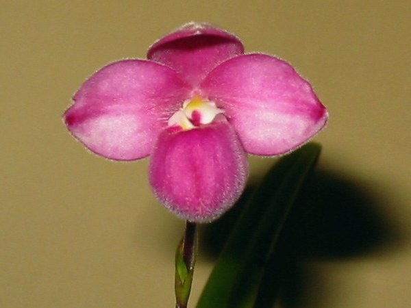 Phragmipedium fisheri